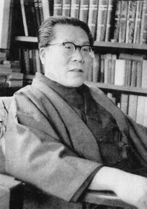 Yoshizo Kawamori